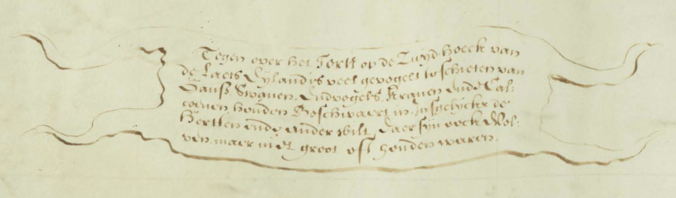 Left scroll of the Map of Rensselaerswyck